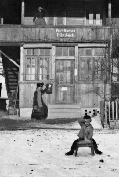 Huenibach post office in Huenibach village, now part of Hilterfingen in Bern, Switzerland. Picture from c. 1925